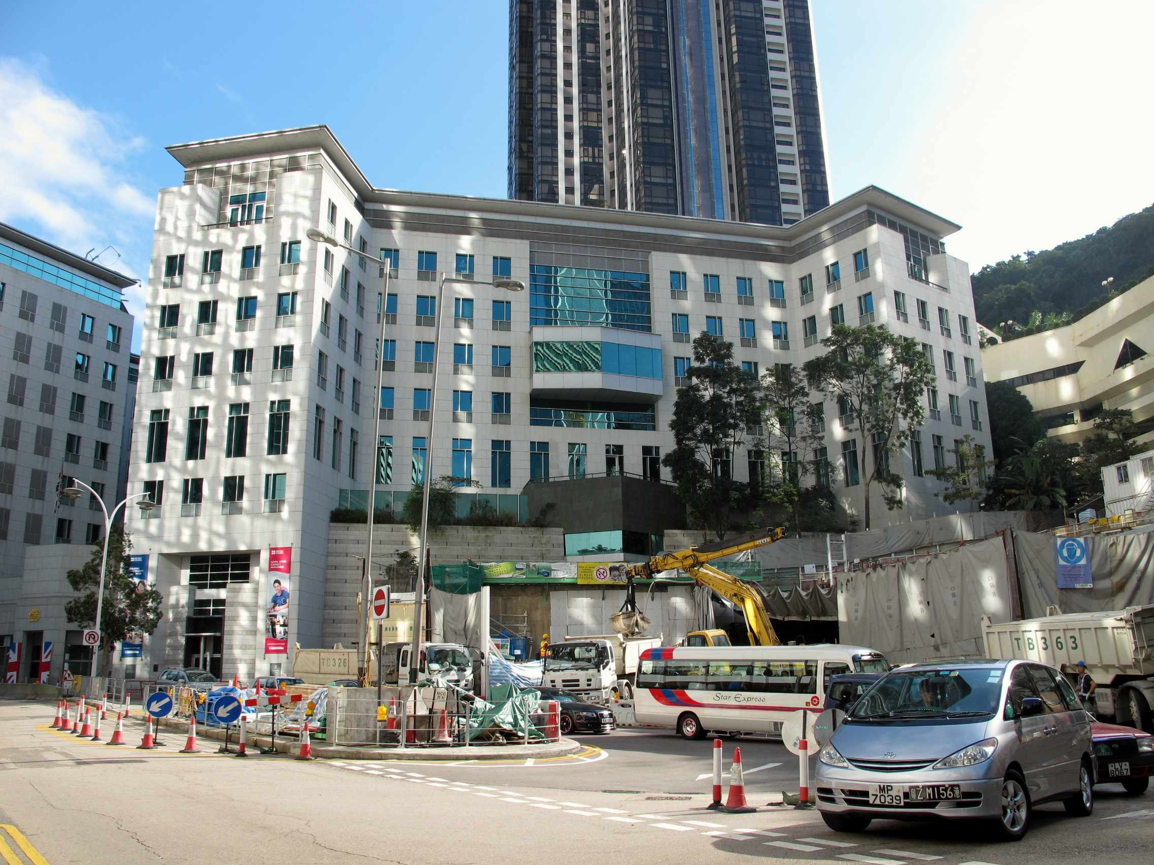 British Council Hong Kong 英國文化協會香港辦公室